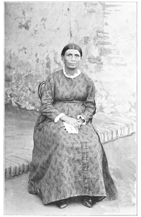 "The old Greek lady, Catarina—who was a ministering angel alike to prisoners and captives" of the Mahdiya in Sudan, according to the German Charles (Karl) Neufeld, who was held in Omdurman for twelve years.